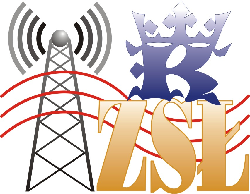 Logo of Upper-secondary Schools of Communications in Cracow.